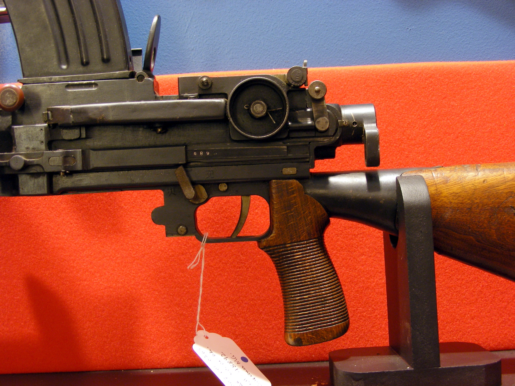 Japanese Type 96 light machine gun, displayed in Royal Canadian Regiment Museum in London, Ontario. Photo taken on April 27, 2008. Source: Photo by me, User:Balcer.